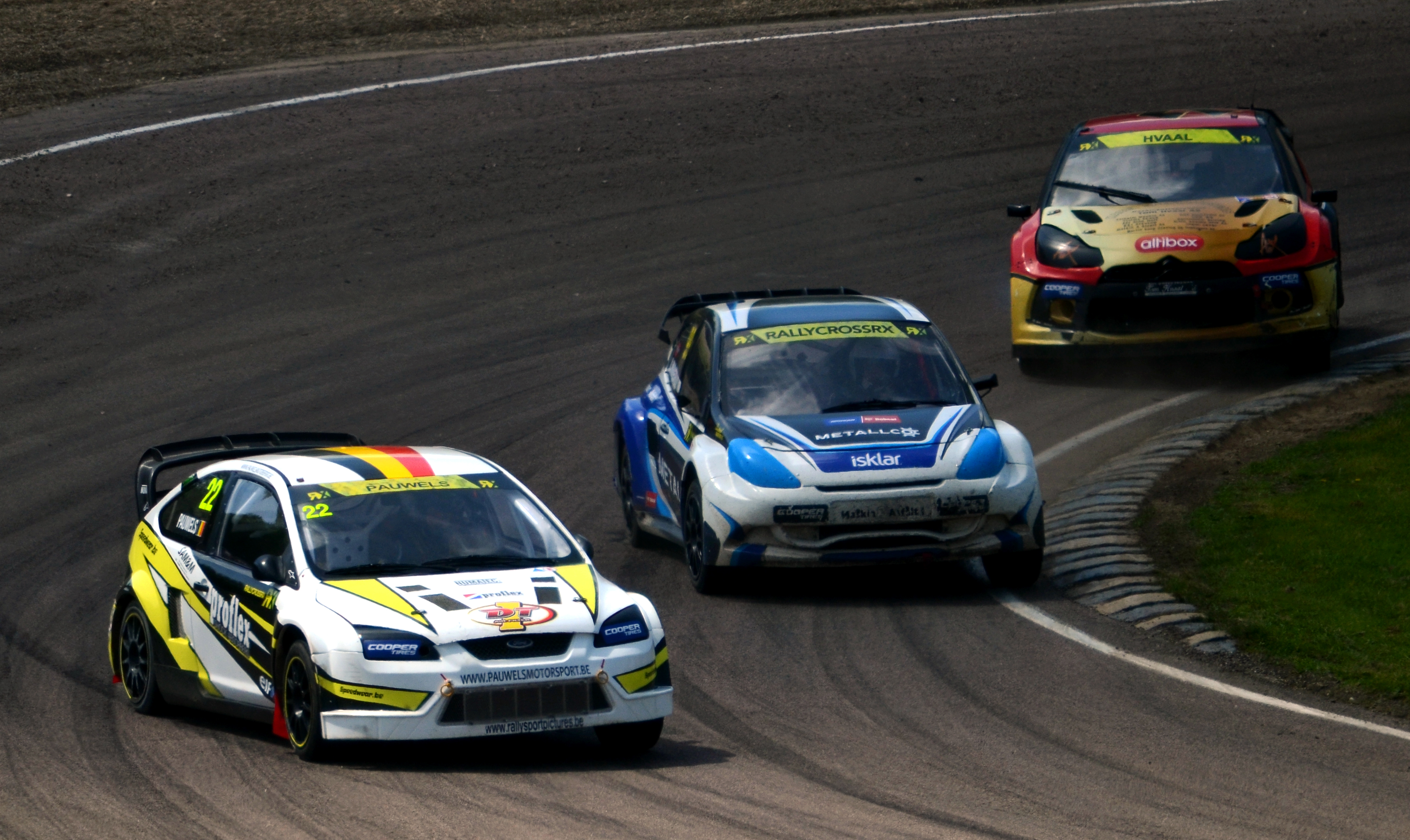 Koen Pauwels leads Tord Linnerud and Alexander Hvaal through Devil's Elbow at Lydden Hill during a heat race of round 2 of the 2014 FIA World Rallycross Championship.